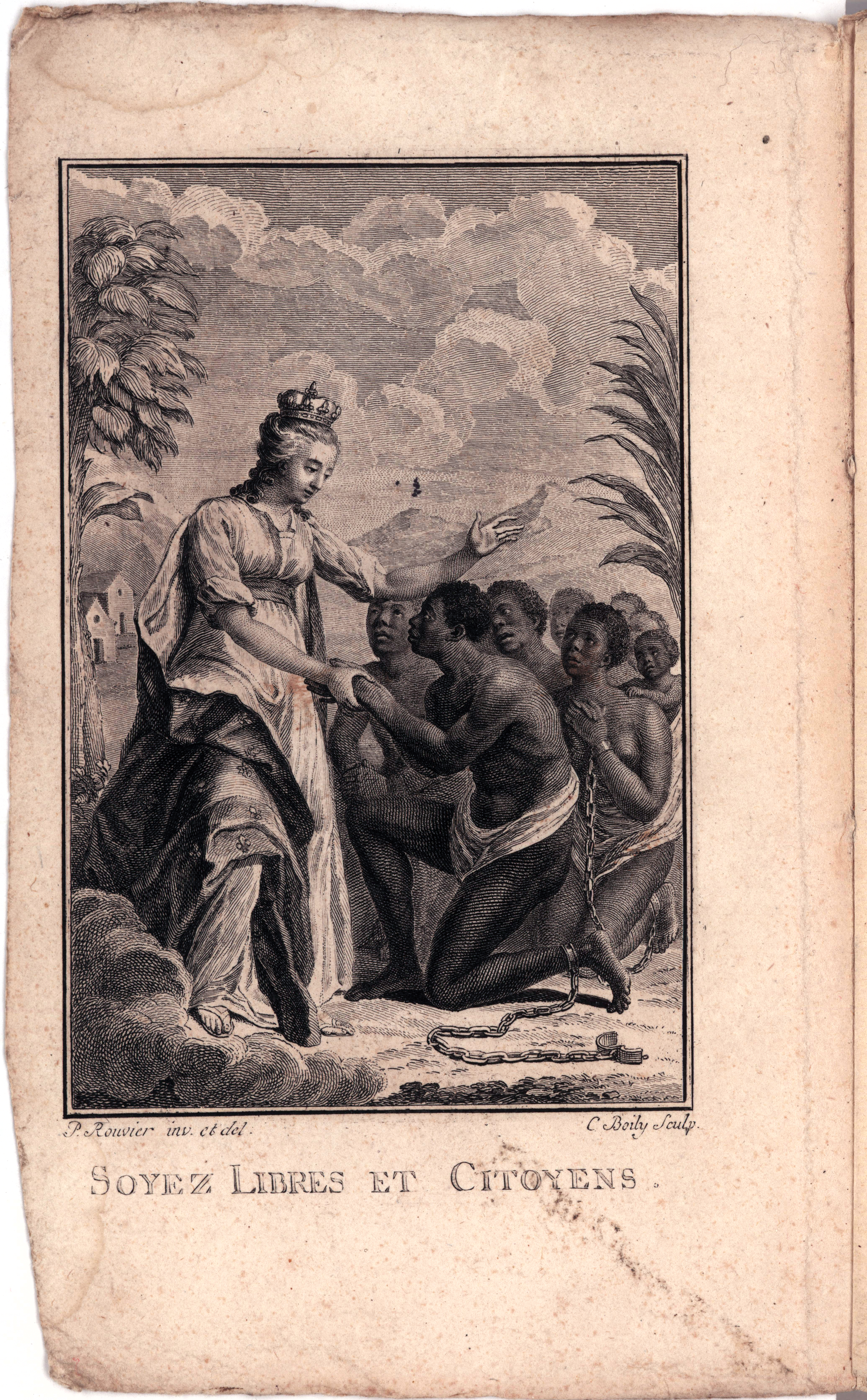 Benjamin-Sigismond Frossard, La cause des esclaves nègres et des habitans de la Guinée […], Lyon, imprimerie Aimé de La Roche, 1789. "Slaves wearing shackles or manacles kneel before a woman wearing a crown and cloak with fleurs de lis representing the French monarchy. Includes black men, women, and children and chains" Call number F789 F938c Pierre Rouvier & Charles Boily, "Soyez Libres et Citoyens". Taille de l'image : 14,7 cm x 9,6 cm. Taille de la page : 21,5 cm x 13 cm. Source : Benjamin-Sigismond Froissard, La cause des esclaves nègres et des habitans de la Guinée […], Lyon, imprimerie Aimé de La Roche, 1789.